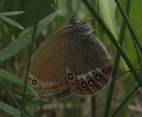 coenonympha hero, Lithuania